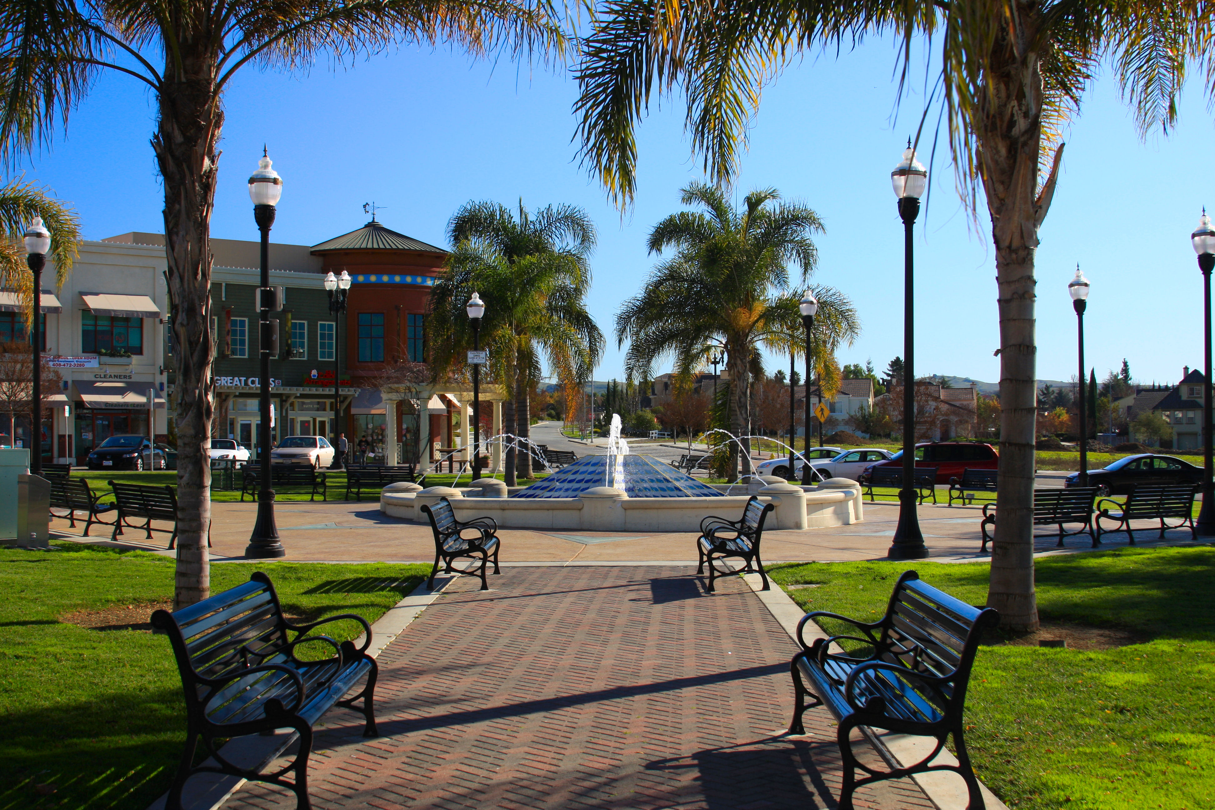 Evergreen Village Square, in Evergreen, San Jose